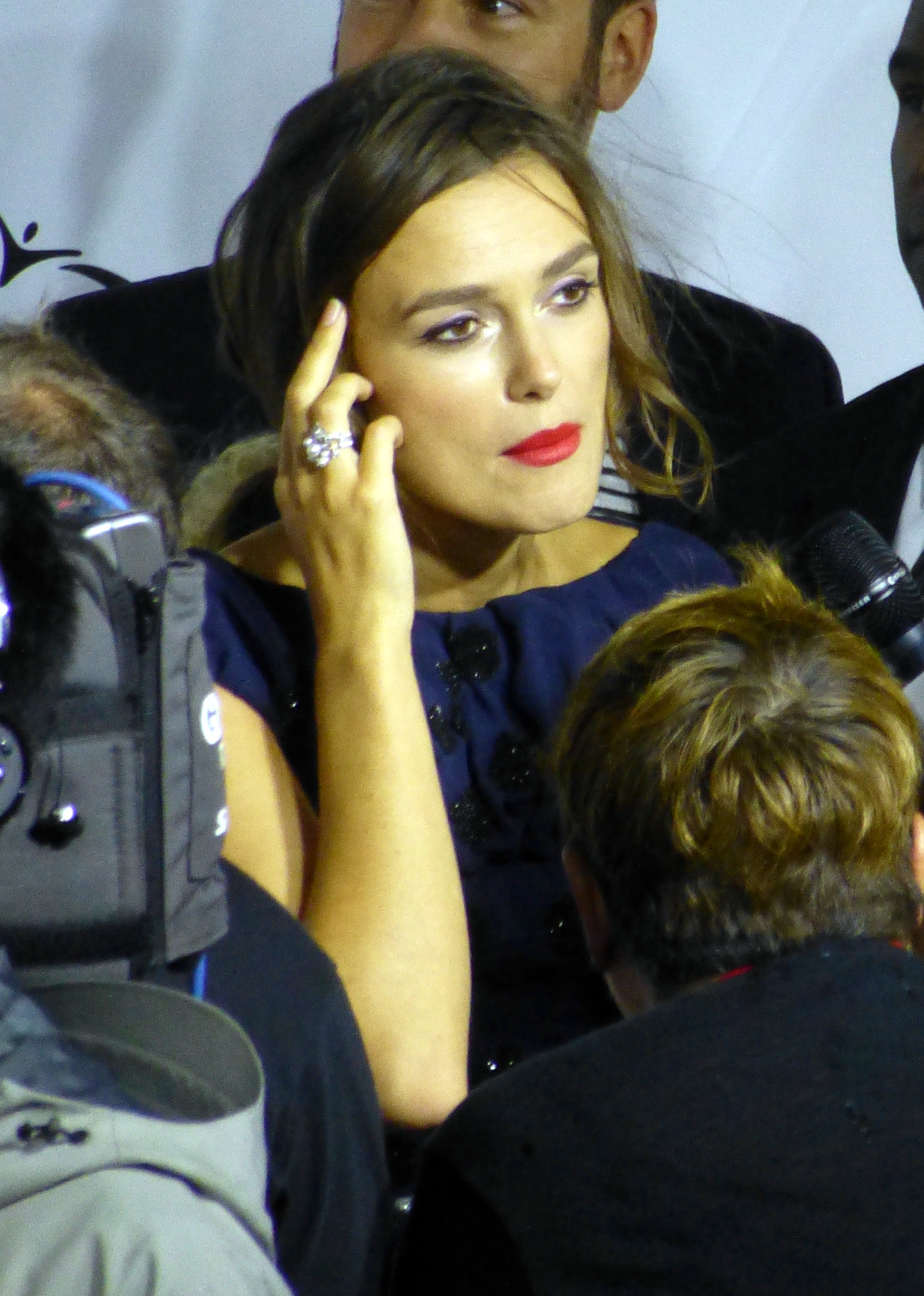 Keira Knightley at the premiere of Laggies, Toronto Film Festival 2014